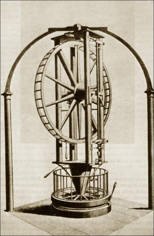 Astronomical telescope made by Ramsden, used for Giuseppe Piazza in the discovery of Ceres in 1801 (Palermo Observatory).